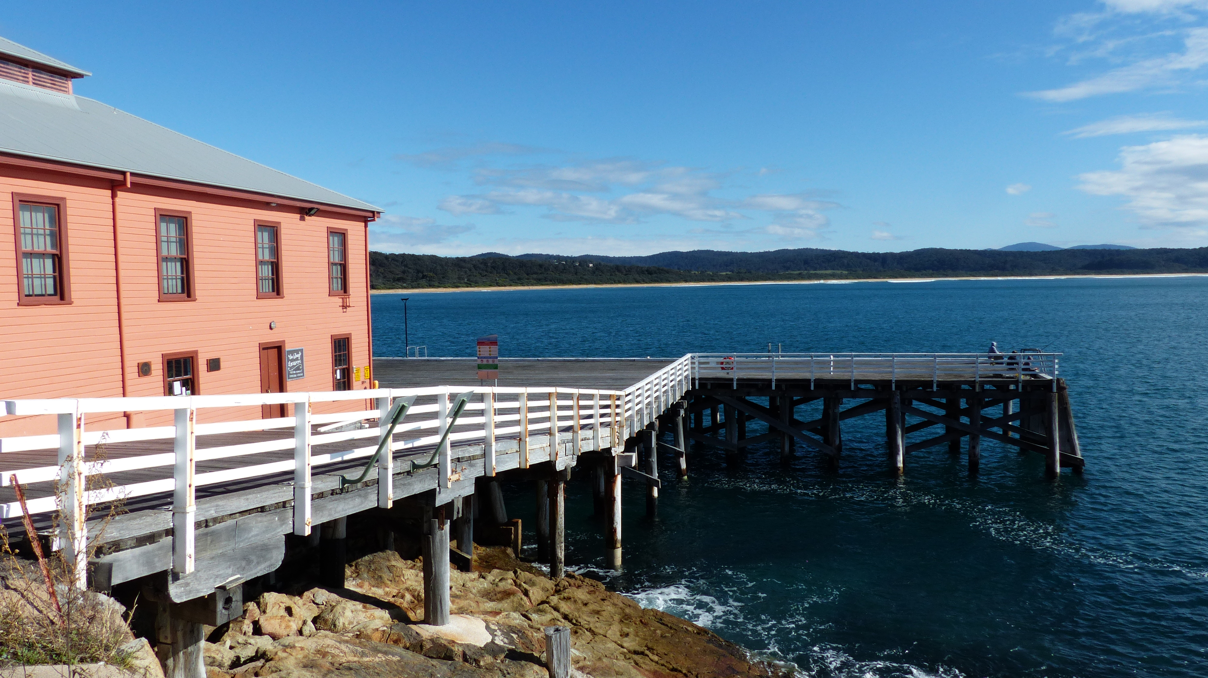 The Tathra area was first settled by Europeans in the 1820s and 1830s, although it was outside the limits of legal settlement, the Nineteen Counties. A small jetty was built at Tathra in the early 19th century. In 1861-62, a larger wharf was built from funds donated by farmers and the Illawarra Steam Navigation Company. Regular shipping commenced in 1862. The wharf, built on turpentine supports set into solid rock, was restored by the National Trust, Department of Planning, and local residents. It is the only remaining coastal steamer wharf in NSW